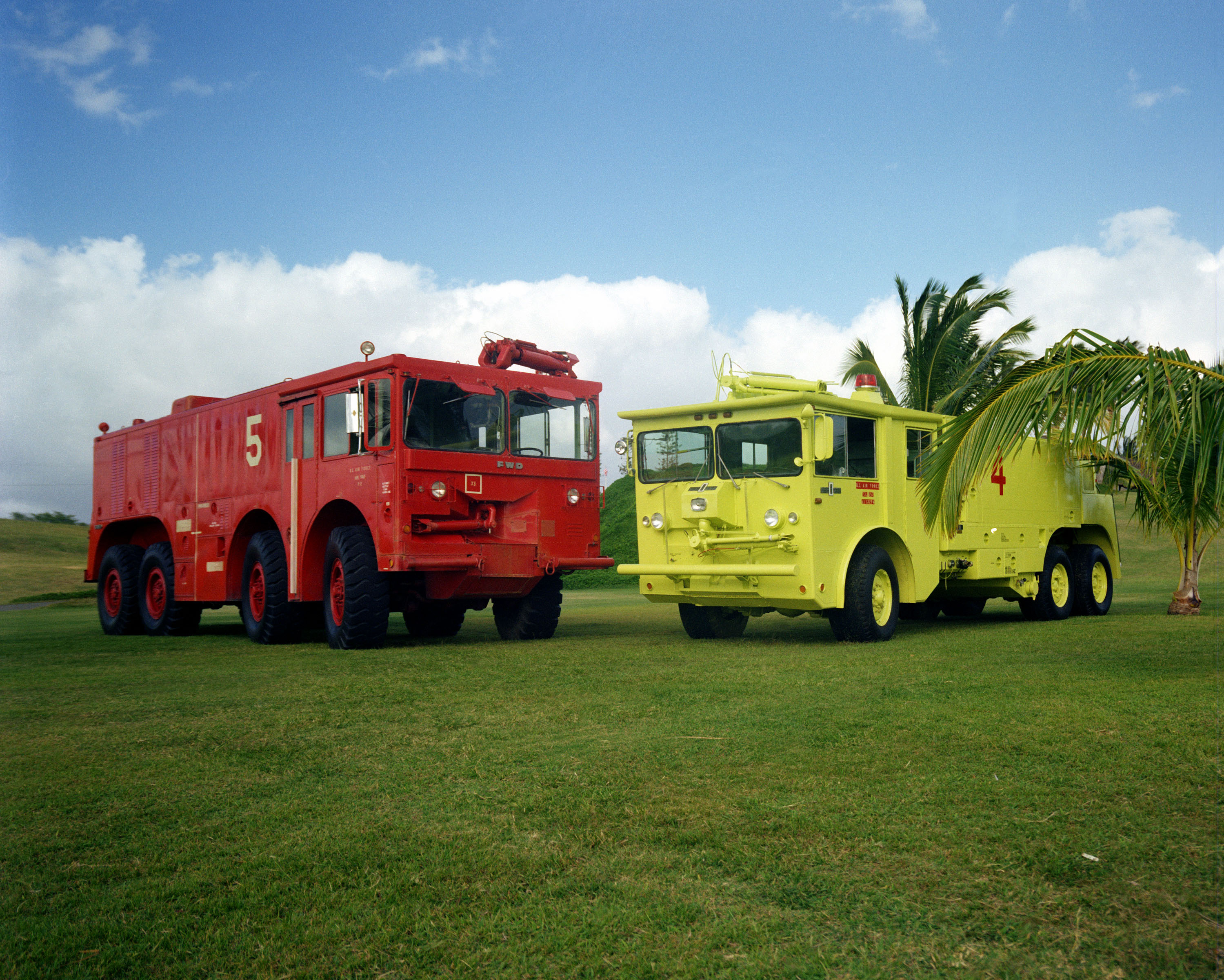 At Hickman Air Force Base, a new FWD Corp P-2 fire tender (left) and an Oshkosh P-4 medium crash tender (right).